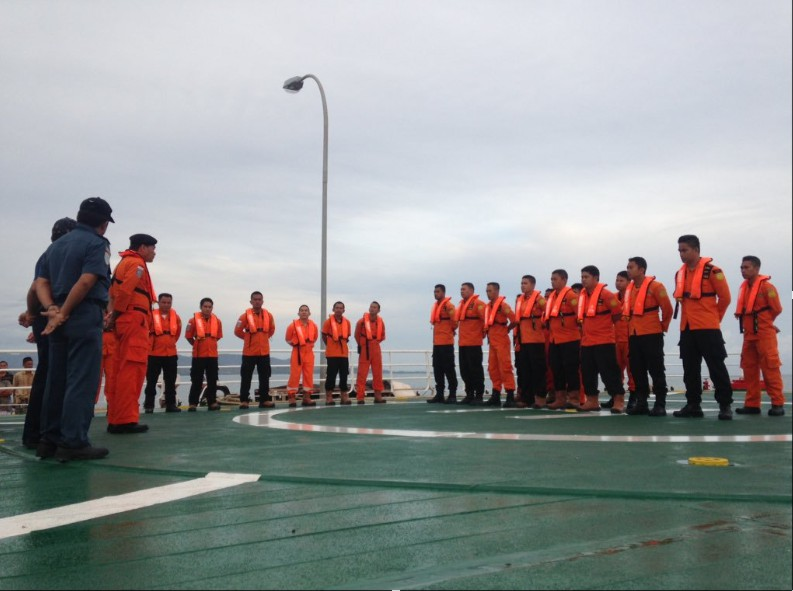 Personnel were briefed on the search and operation of MV Marina Baru 2B